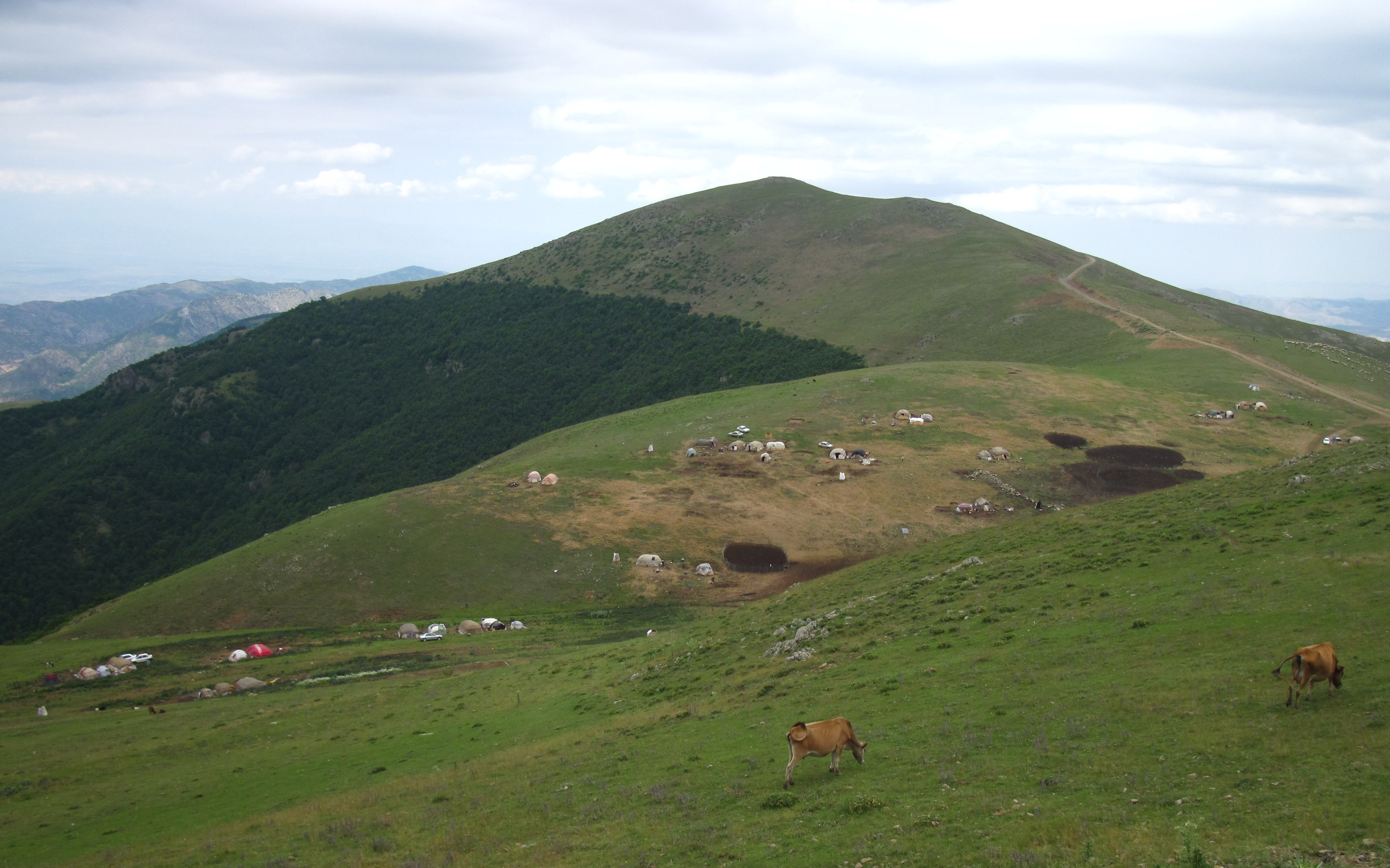 For Chaparli wiki page.